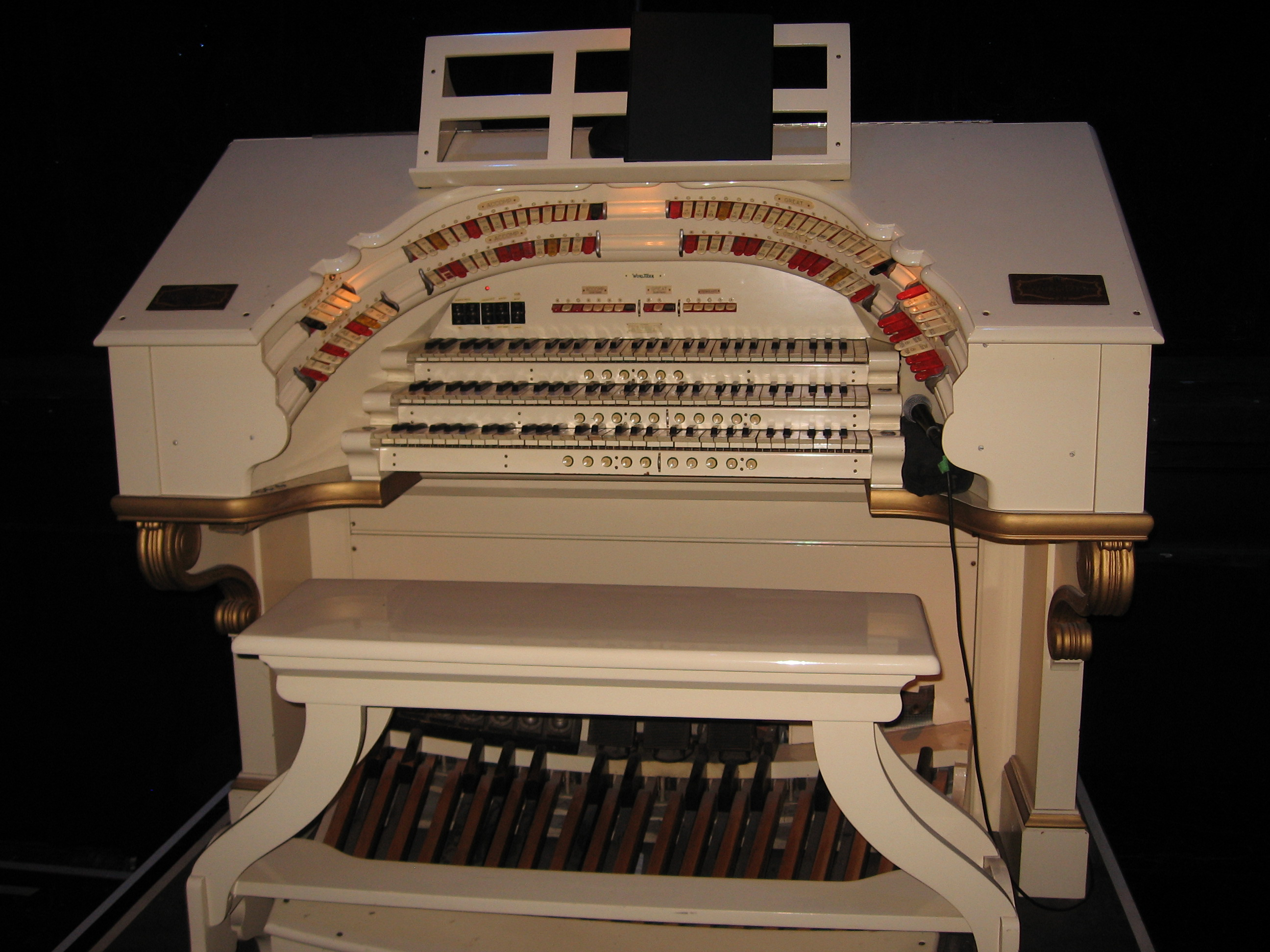 Orpheum Theatre Wurlitzer theatre organ console